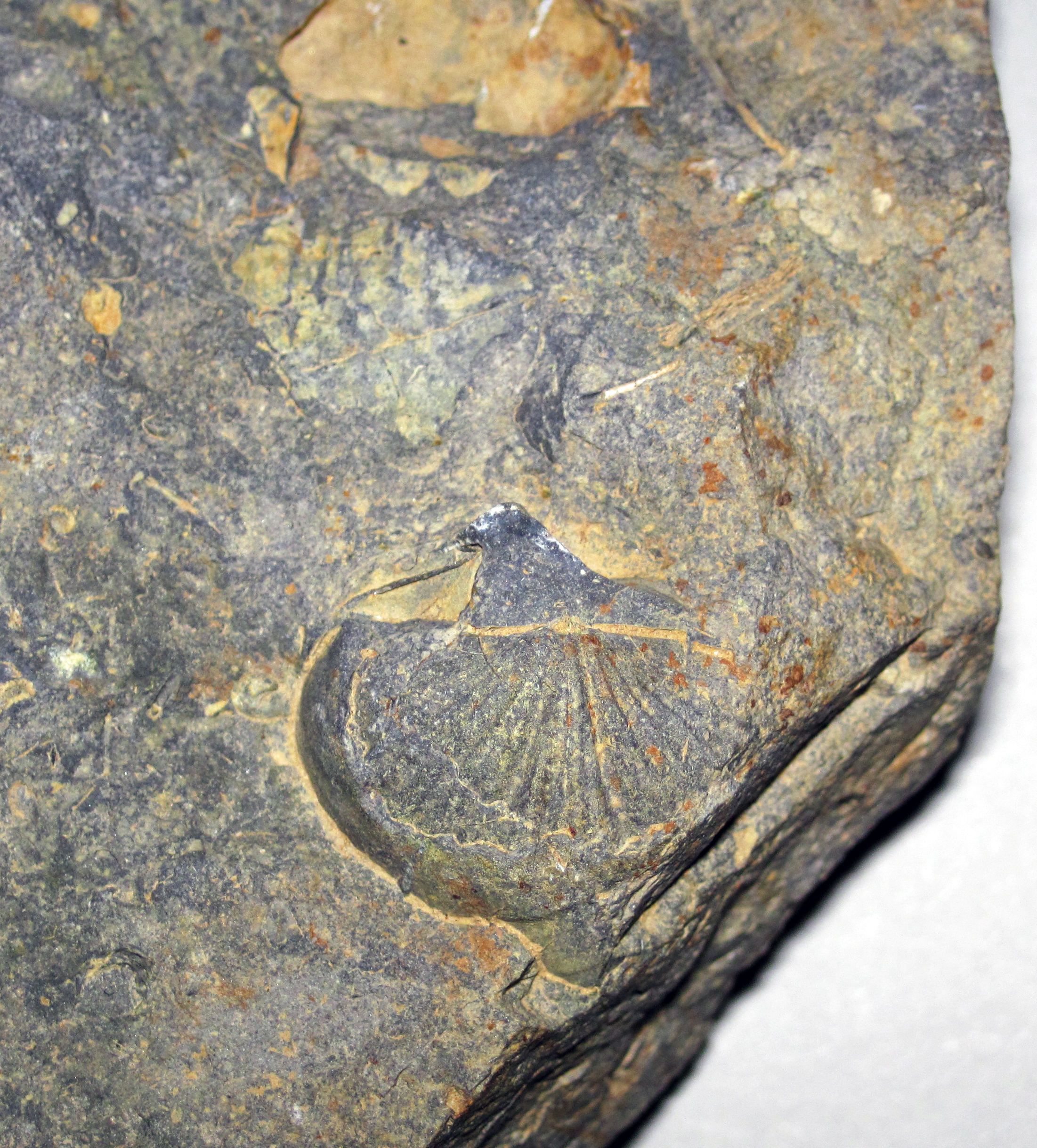 Fossiliferous chert from the Pennsylvanian of Ohio, USA. "Flint" is the official gemstone of Ohio. Flint is actually chert (the two terms are synonymous, despite what anyone else might say), a cryptocrystalline, quartzose sedimentary rock. High-quality, colorful, multicolored, and multipatterned flint is moderately common at some Ohio localities. A couple famous flint occurrences in east-central Ohio include the Vanport Flint at Flint Ridge and Nellie Blue Flint in Coshocton County. The rock shown above is weathered chert from the Upper Mercer Flint, a somewhat persistent horizon of chertified marine fossiliferous limestone in east-central and eastern Ohio called the Upper Mercer Limestone. The Upper Mercer is usually a black flint with whitish speckles (= often body fossils and fossil fragments). This sample is quite fossiliferous. The prominent, gray-colored fossil is a brachiopod shell. Brachiopods are sessile, benthic, filter-feeding lophophorates with two shells. They first appear as fossils in the Cambrian and were abundant on many shallow seafloors during the Paleozoic. They are scarce in modern oceans. Stratigraphy: Upper Mercer Flint (= chertified Upper Mercer Limestone), upper Bedford Cyclothem, upper Pottsville Group, Atokan Series, lower Middle Pennsylvanian Locality: Nellie West Outcrop, western Jefferson Township, western Coshocton County, east-central Ohio, USA